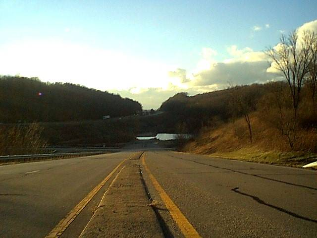 Lady Bend Hill. Egypt Valley, Ohio